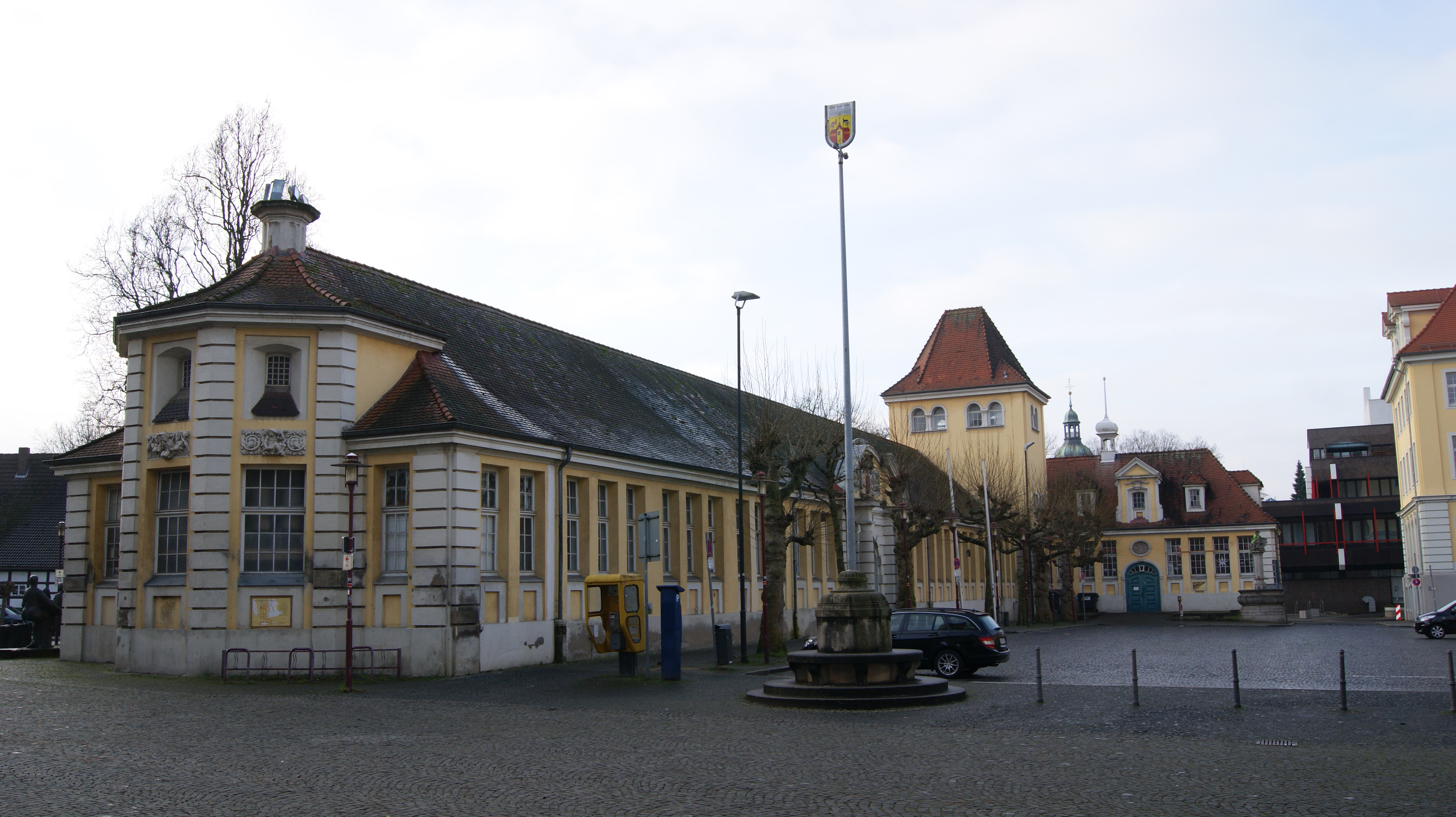 Market hall in Herford, District of Herford, North Rhine-Westphalia, Germany. View from the Herford cathedral.